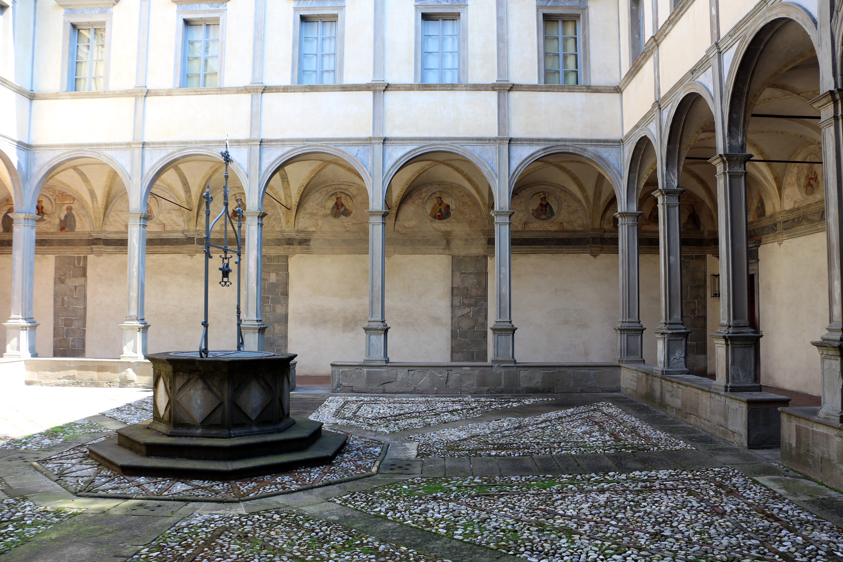 Abbazia di Pontida